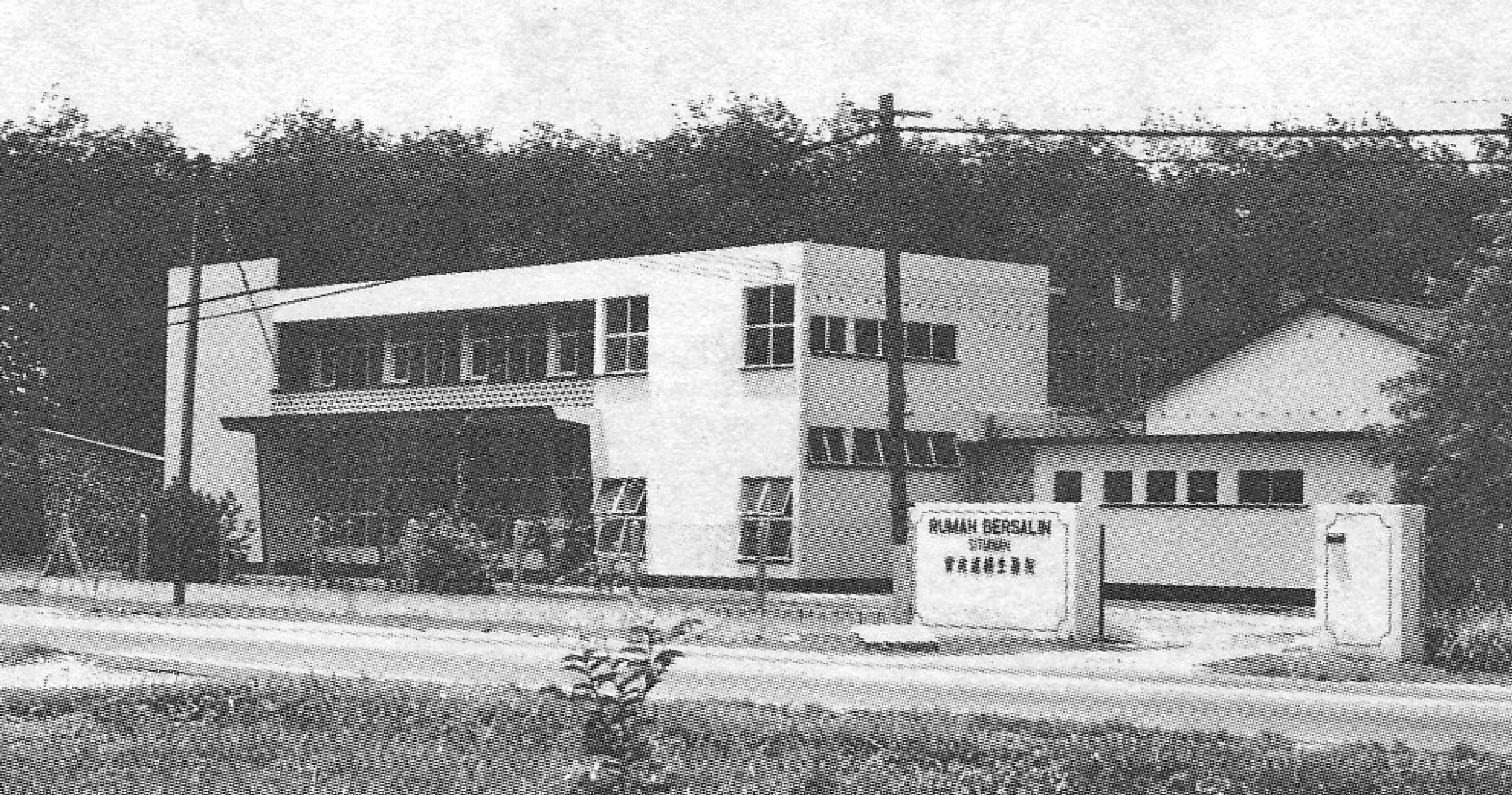 Sitiawan Maternity Hospital 1938, founded by Seok Kim; Book: No Other Way Out - A Biography of Ong Seok Kim. PJ, Malaysia; Authors: Wang Jianshi, Ong Eng-Joo; Publisher: Strategic Information and Research Development Centre, 2013; Site